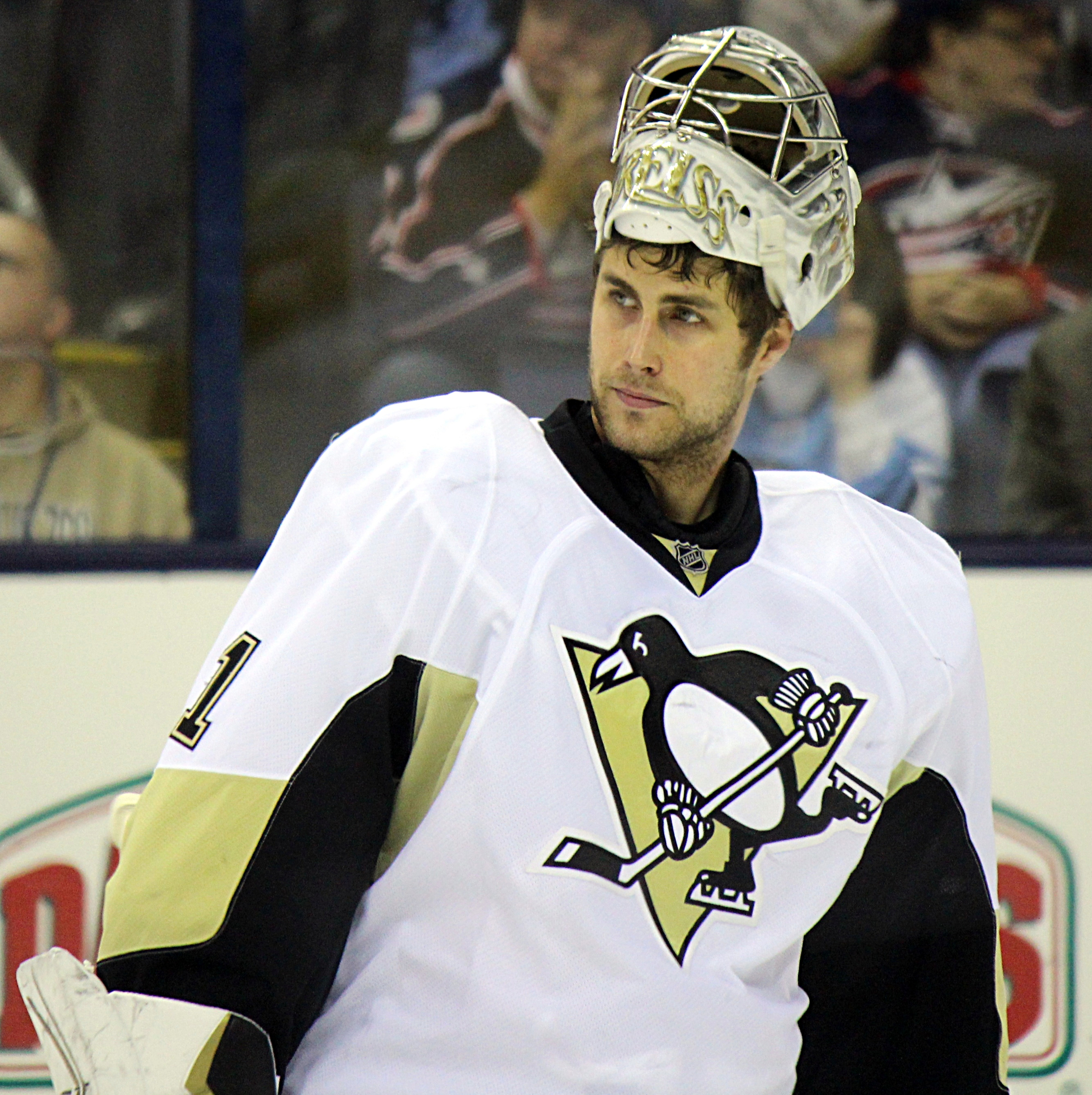 Pittsburgh Penguins goaltender Thomas Greiss against the Columbus Blue Jackets, December 13, 2014, at Nationwide Arena in Columbus, Ohio. Greiss would go on to lose in the shootout.